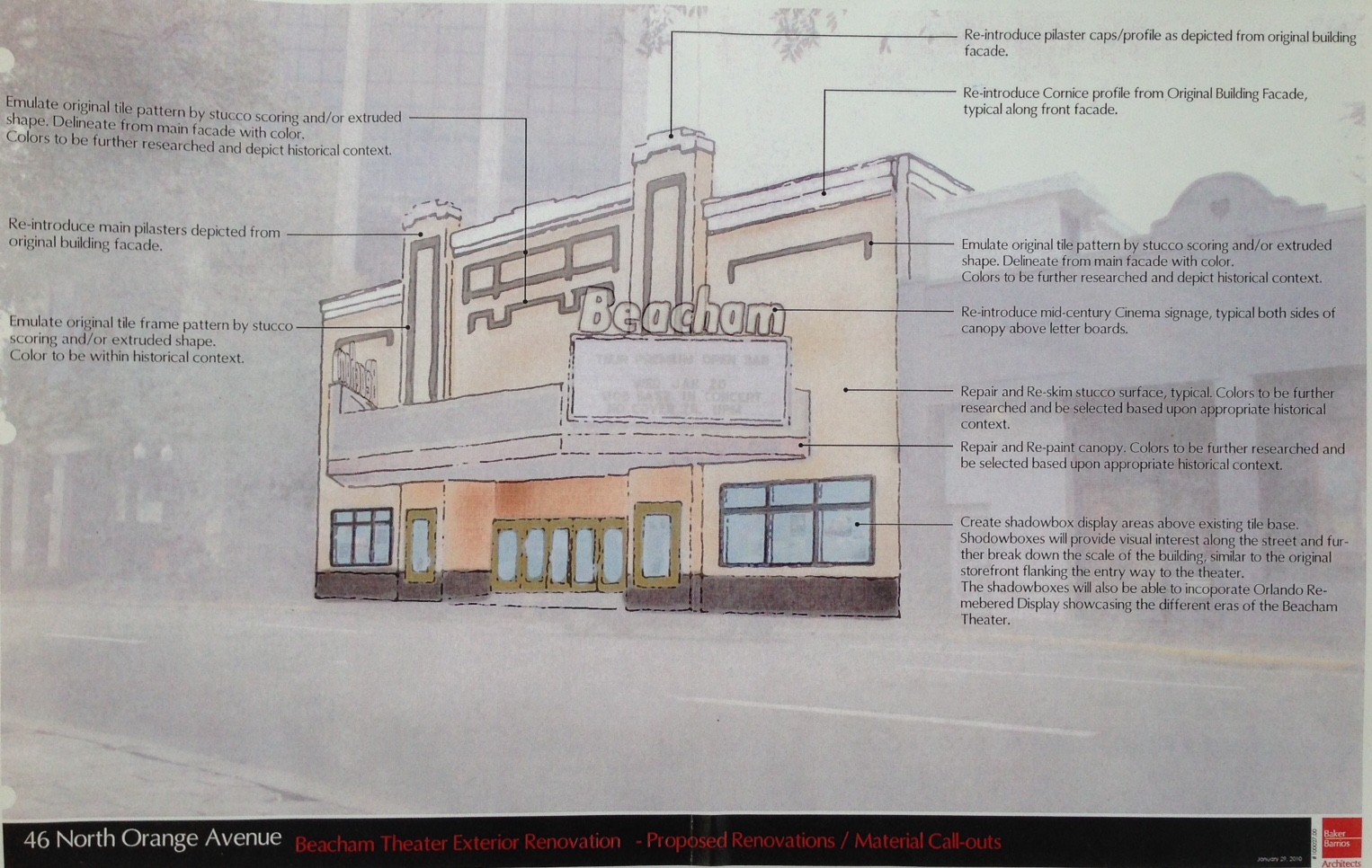 A restoration proposal by Baker Barrios for the Beacham Theatre